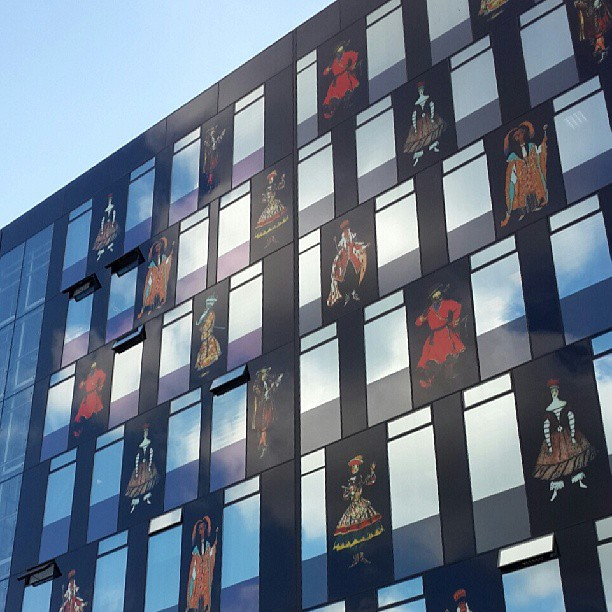 Exterior of Yandex office in Saint Petersburg, Russia